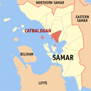 Map of Samar showing the location of Catbalogan